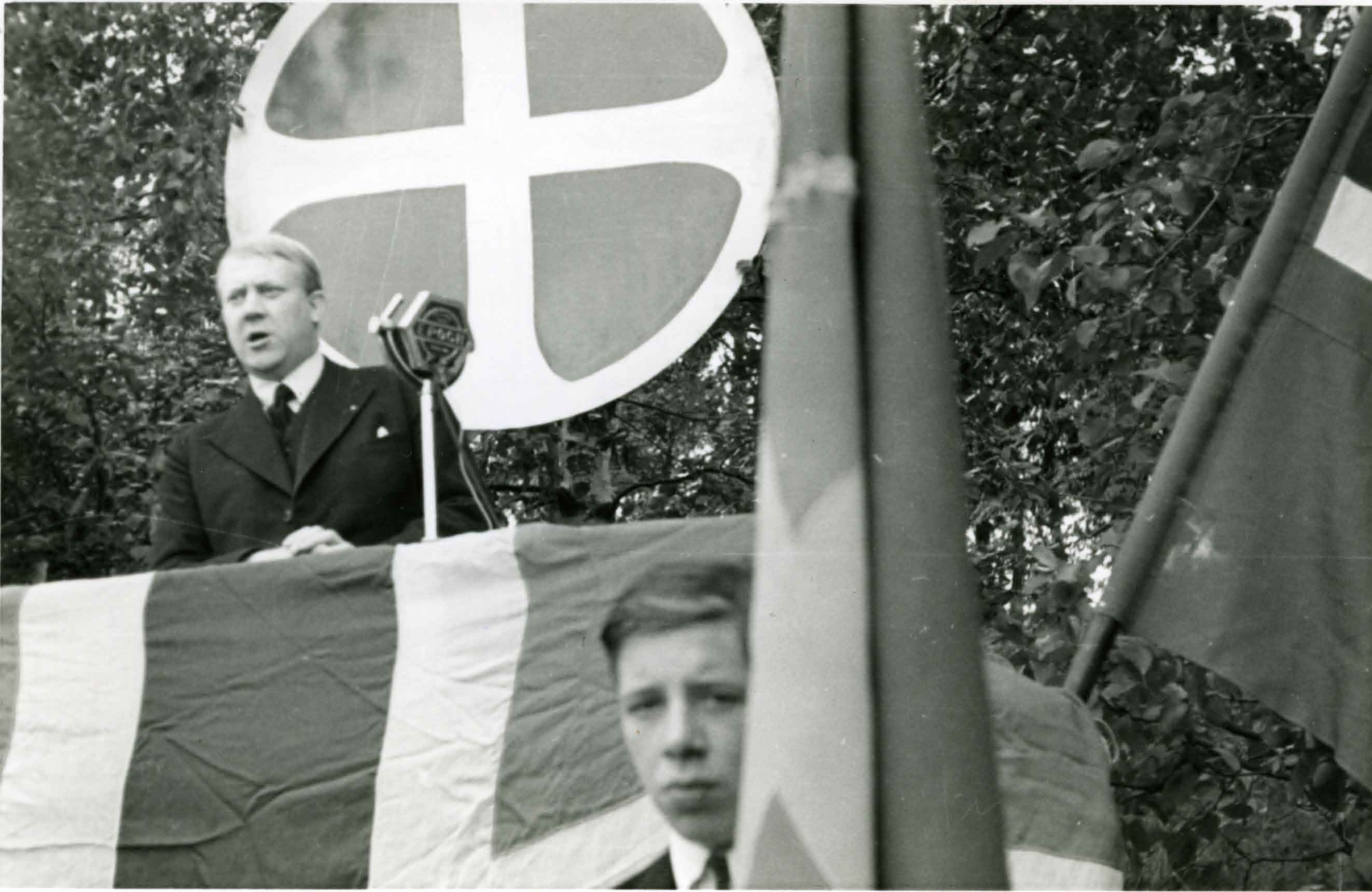 Vidkun Qusiling (1887–1945) was a Norwegian military officer and politician. He first came to international prominence when organizing humanitarian relief during the Russian famine of 1921 in Ukraine. He served as Minister of Defence in two governments 1931–1933, representing the Farmers' Party. On 9 April 1940, with the German invasion of Norway in progress, he attempted to seize power in the world's first radio-broadcast coup d'état, but failed after the Germans refused to support his government. From 1942 to 1945 he served as Minister-President, heading the Norwegian state administration jointly with the German civilian administrator Josef Terboven. His pro-Nazi puppet government, known as the Quisling regime, was dominated by ministers from Nasjonal Samling, the party he founded in 1933. Quisling was put on trial during the legal purge in Norway after World War II and executed by firing squad at Akershus Fortress, Oslo, on 24 October 1945.